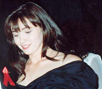 Actress Shannen Doherty at the Governor's Ball following the 43rd Annual Emmy Awards. Image has been cropped to remove the people surrounding Doherty.